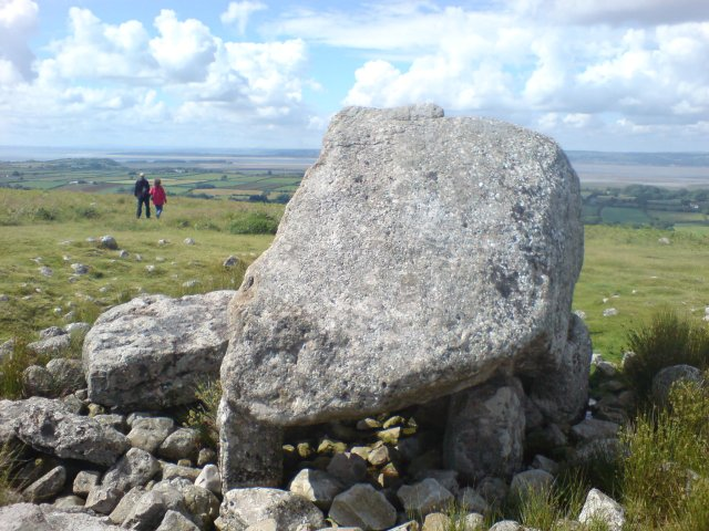 Arthur's Stone A close-up of Arthur's Stone. It's said to weigh more than 25 metric tonnes and legend states that it appeared here when Arthur was walking in Llanelli and stopped to take a stone out of his shoe. He threw it away and it landed here... big boots. It's far more likely that this is a glacial erratic, left here as a glacial deposit at the end of the last ice age. It's believed to have been first photographed around 1856 John Dillwyn Llewelyn who invented Oxymel, a turning point in photography.